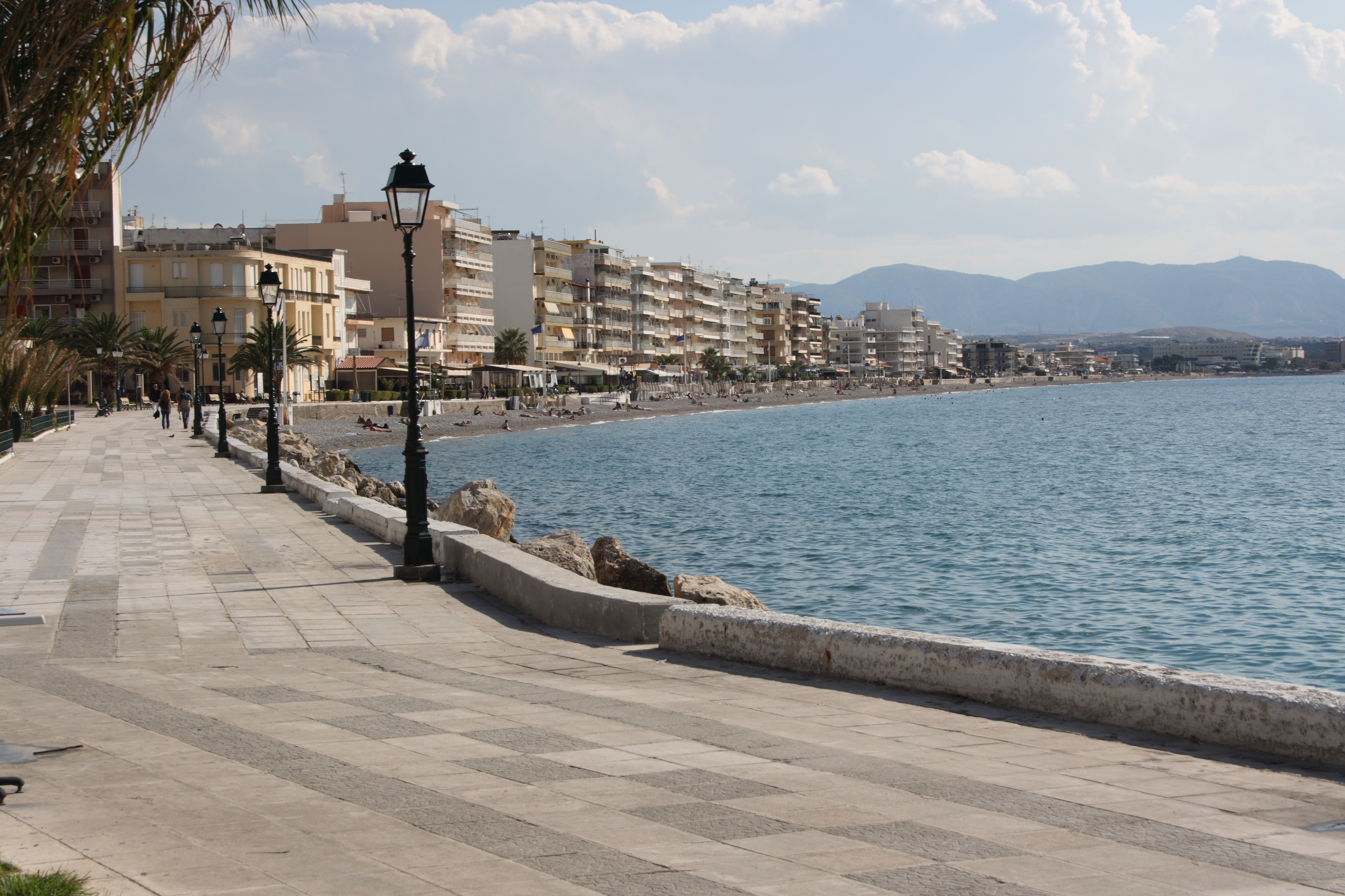 City of Loutraki,Greece. View from embankment.